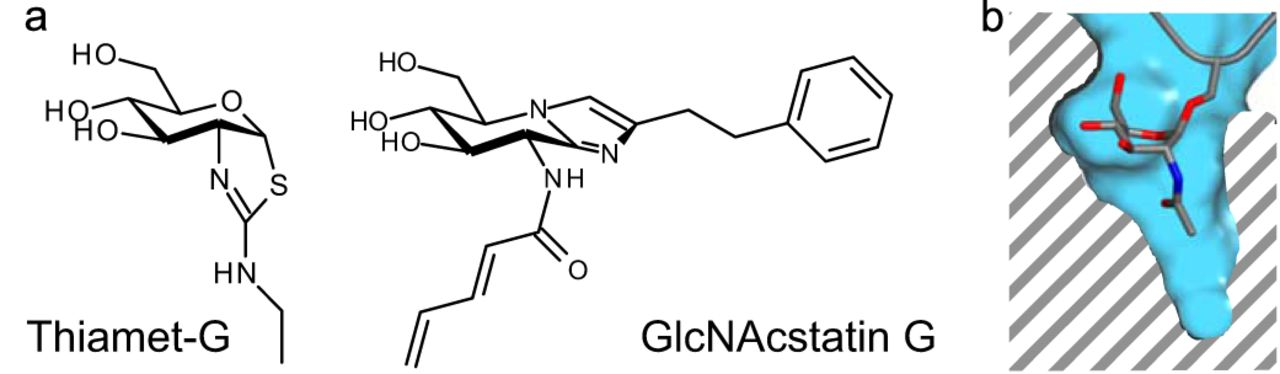 Inhibitors for OGA